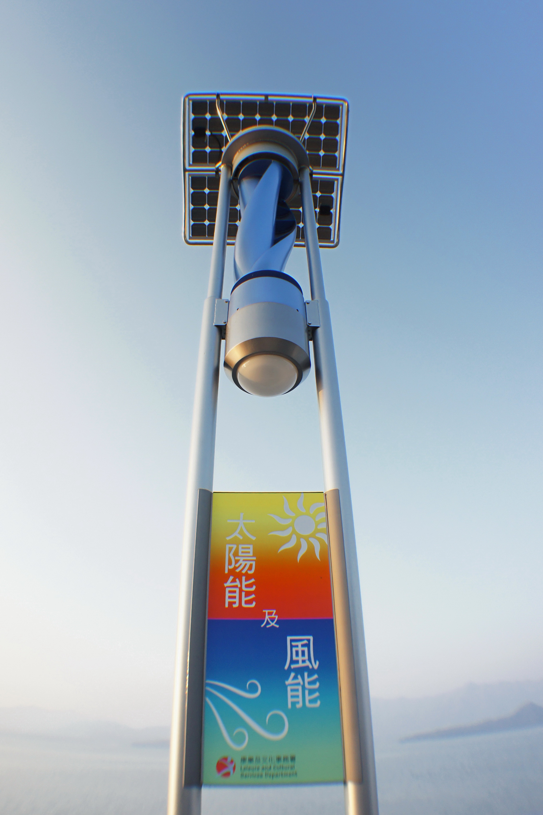 A solar and wind-powered lamp located in Ma On Shan Waterfront Promenade, Hong Kong.